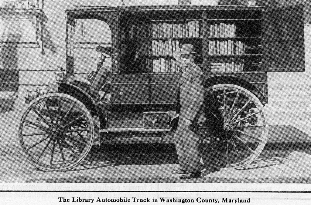 "The Library Automobile Truck in Washington County, Maryland". 1916. Intermediate commentator notes "the truck appears to be an electric and has solid tires."